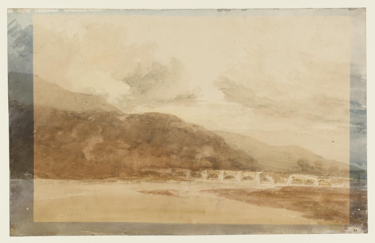 ?Abergavenny Bridge 1798 Joseph Mallord William Turner 1775-1851 Accepted by the nation as part of the Turner Bequest 1856